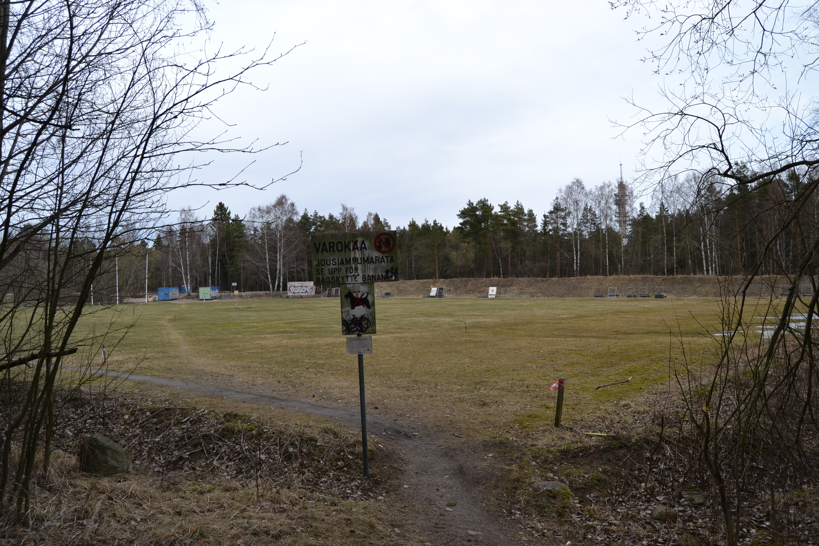 Ruskeasuo archery range in Ruskeasuo, Helsinki.